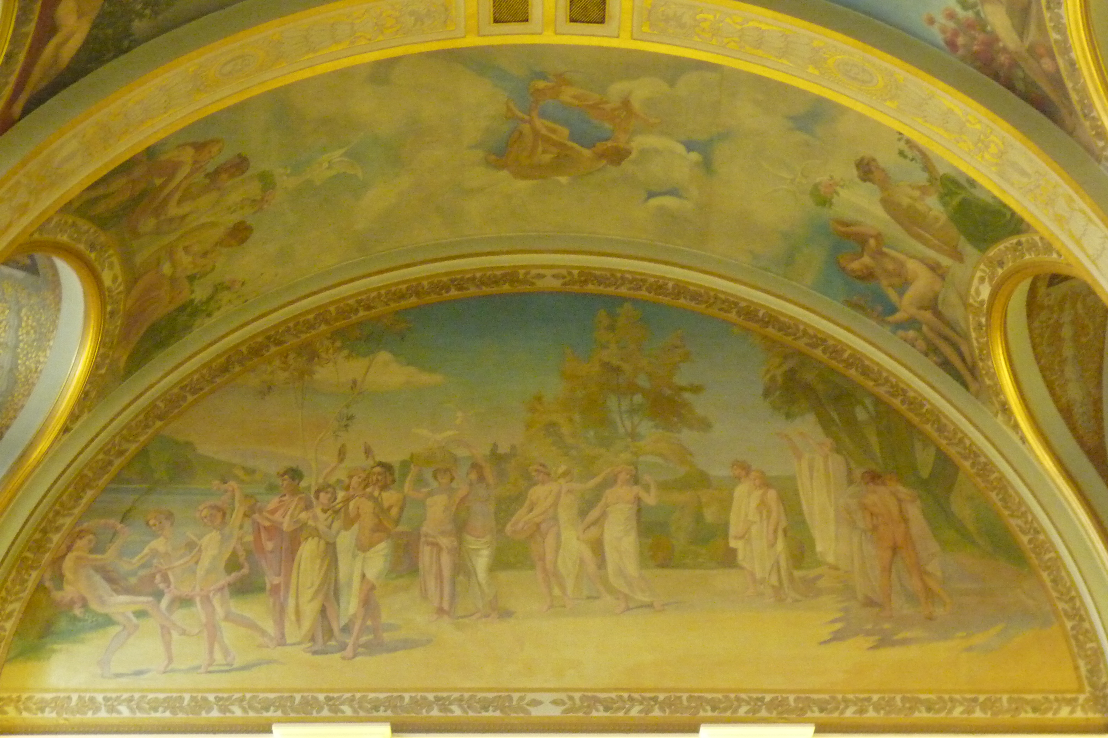 Side wall of Omer Dierickx' allegorical ceiling painting in the Room of Europe, depicting The Wedding Feast (above the entrance to the Wedding Room)